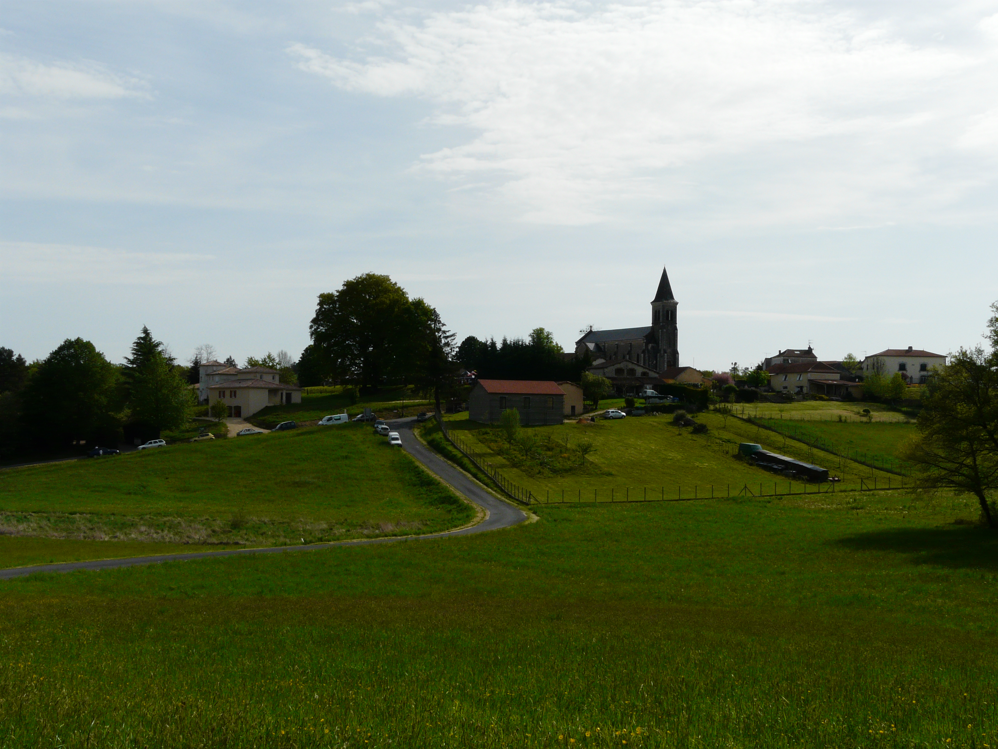 View of Marsaneix